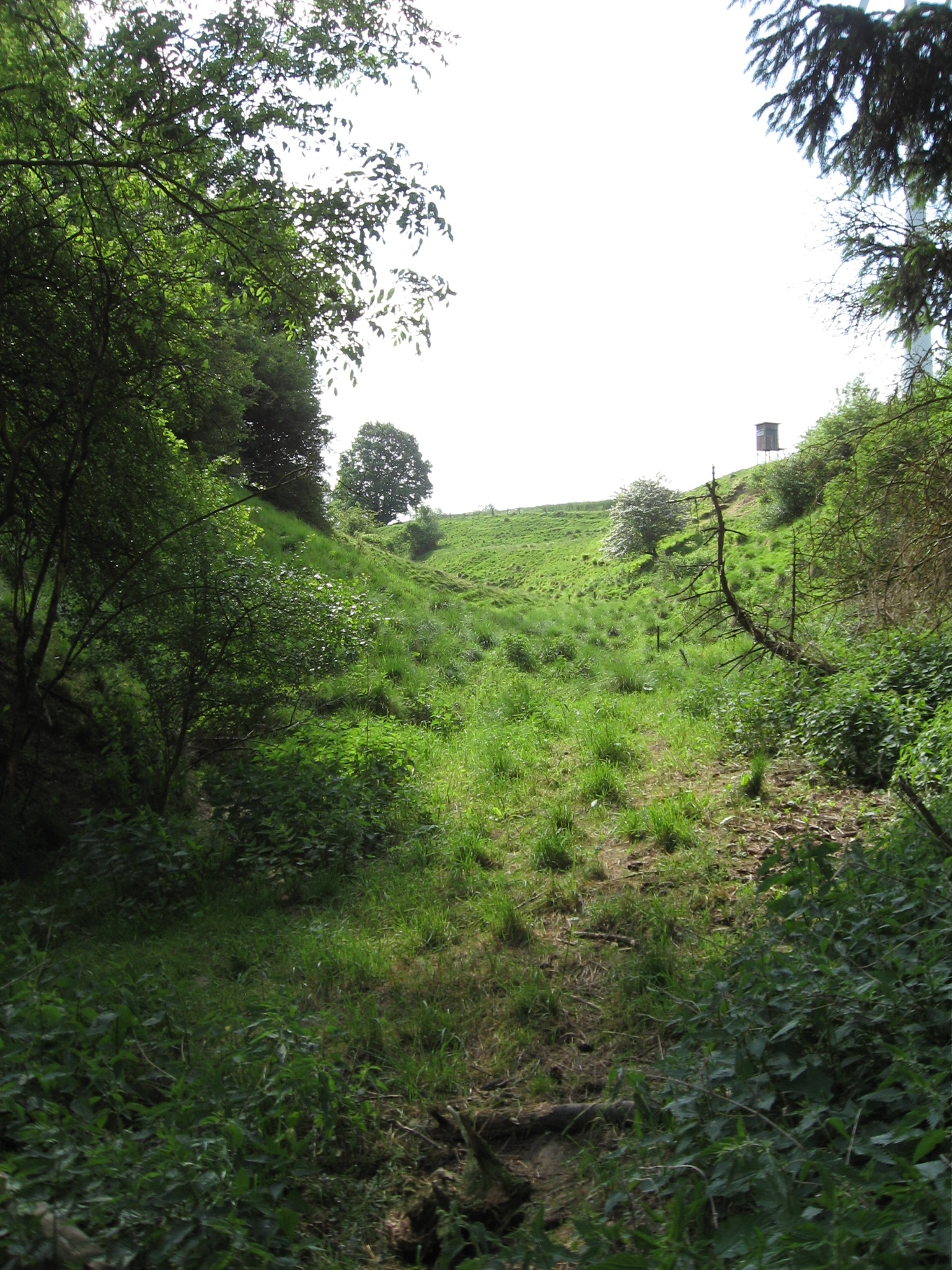 Bereich der Schwelge östlich des Feldgehölzes im Naturschutzgebiet Schwelge / Wolfsknapp.